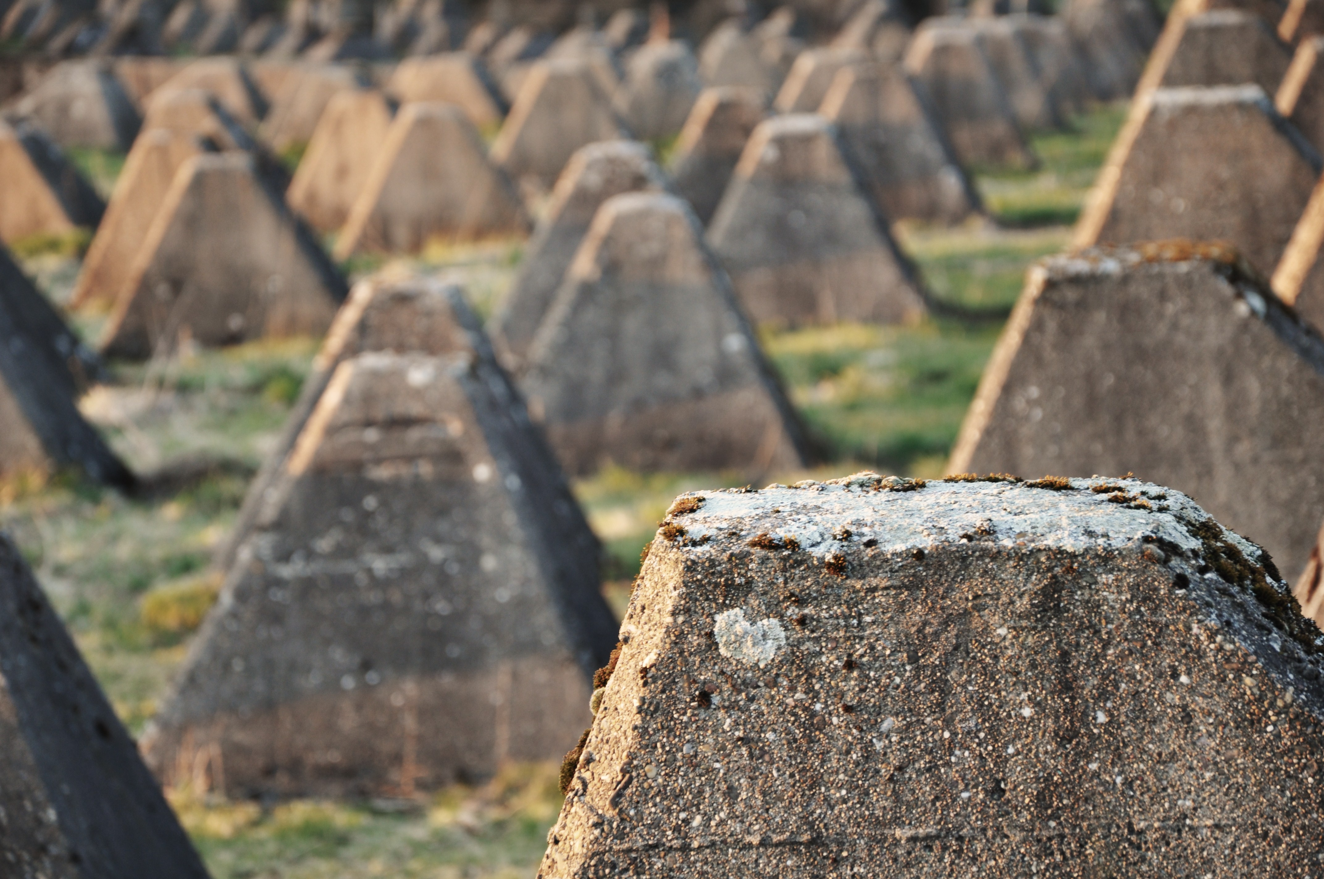 Detail of the Westwall near Schmithof in March 2011.